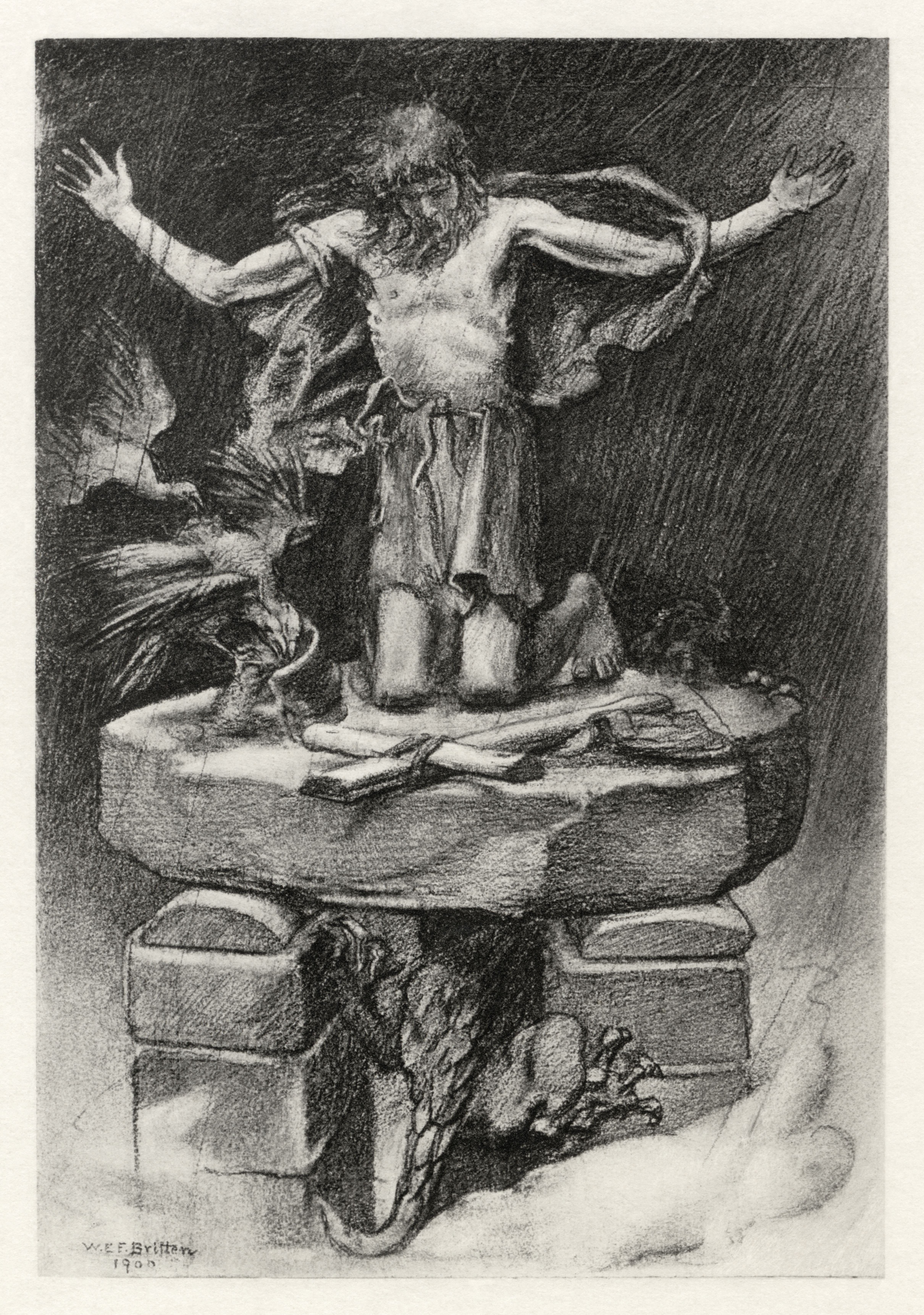 Illustration to Tennyson's "St. Simeon Stylites" by W. E. F. Britten "And yet I know not well, For that the evil ones come here, and say, 'Fall down, O Simeon; thou hast suffered long For ages and for ages!'"